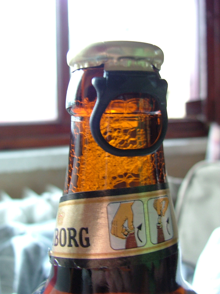 Beer bottle cap.